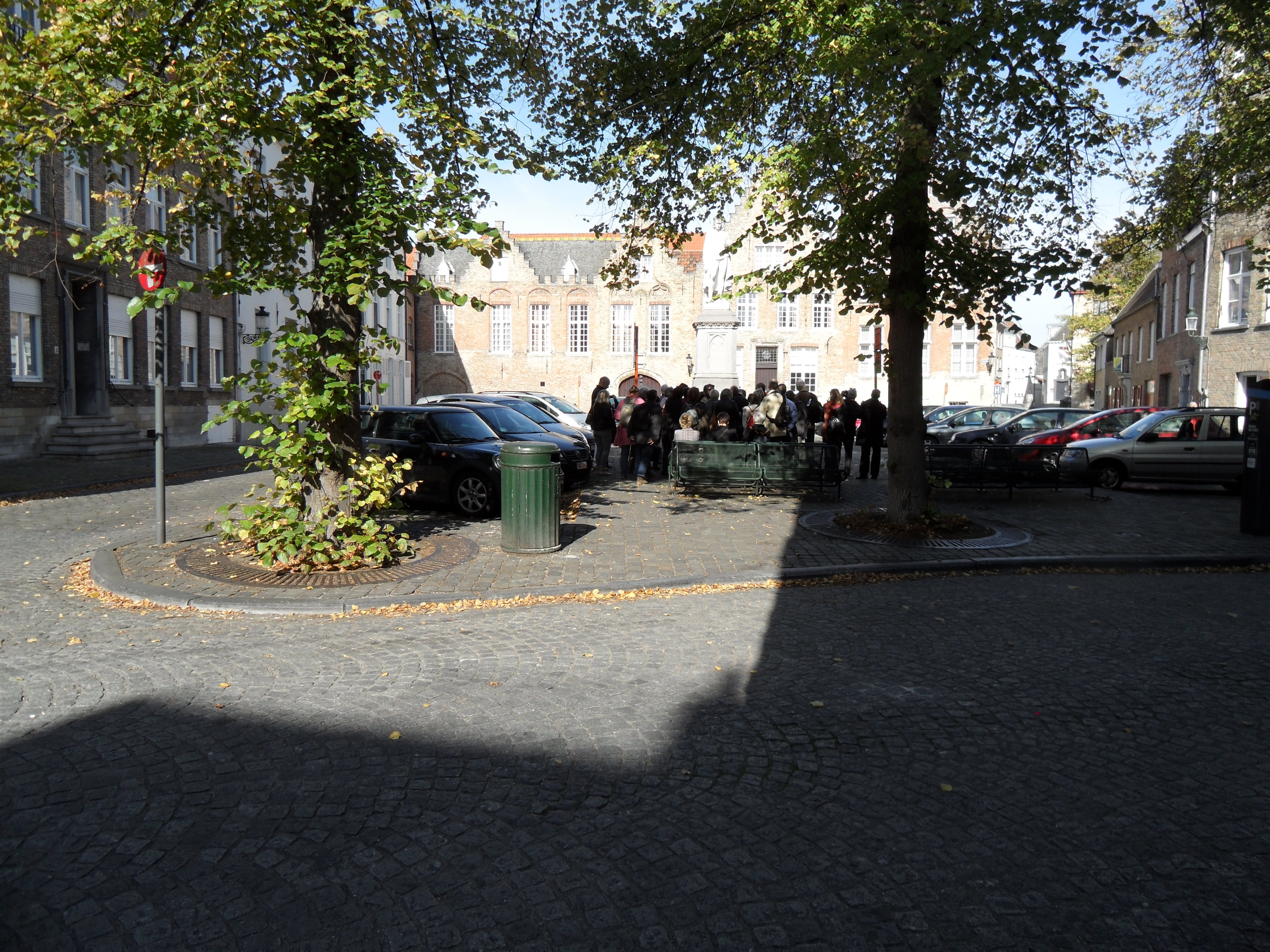 Woensdagmarkt in Bruges